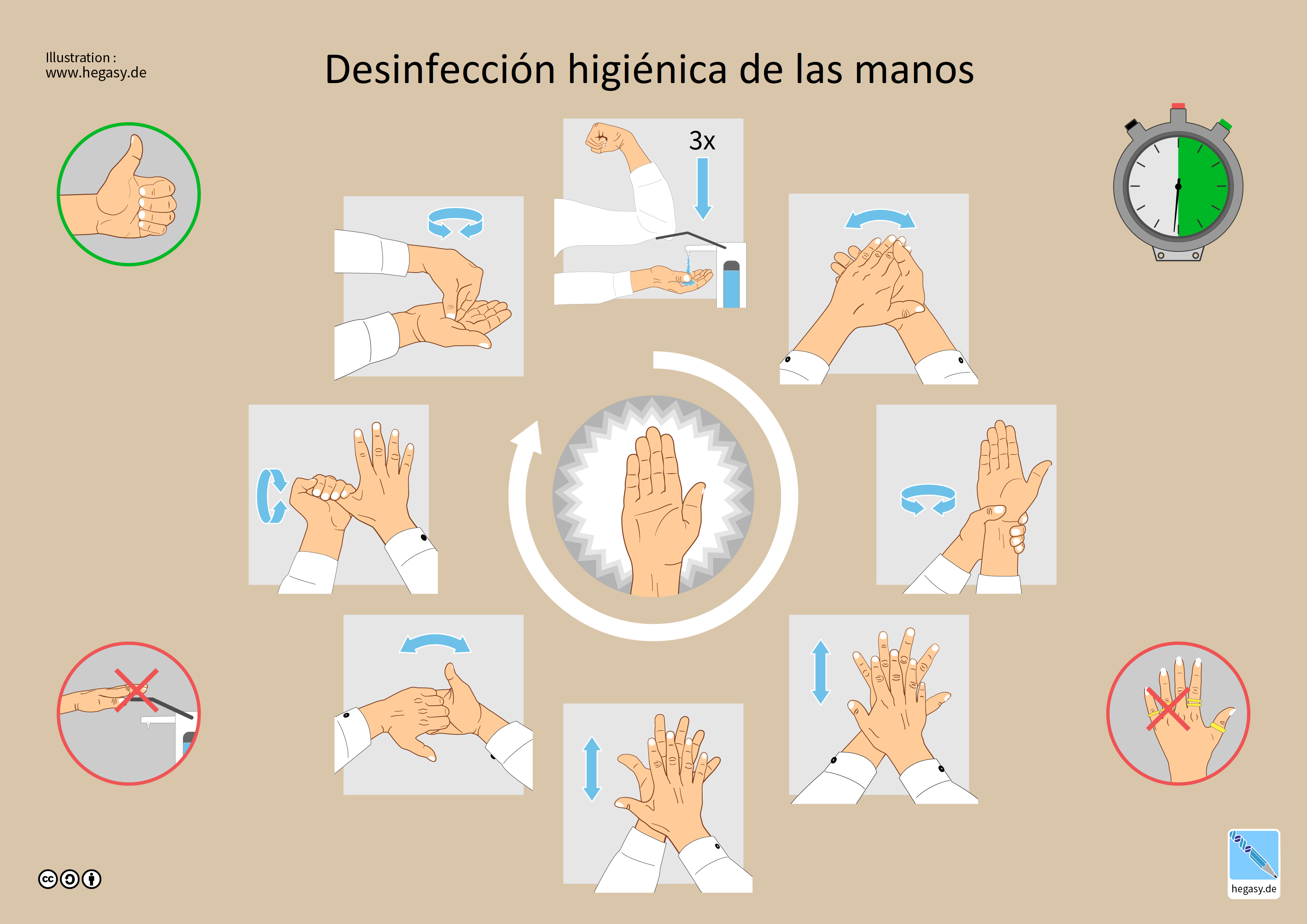 Hand Disinfection according to DIN EN 1500